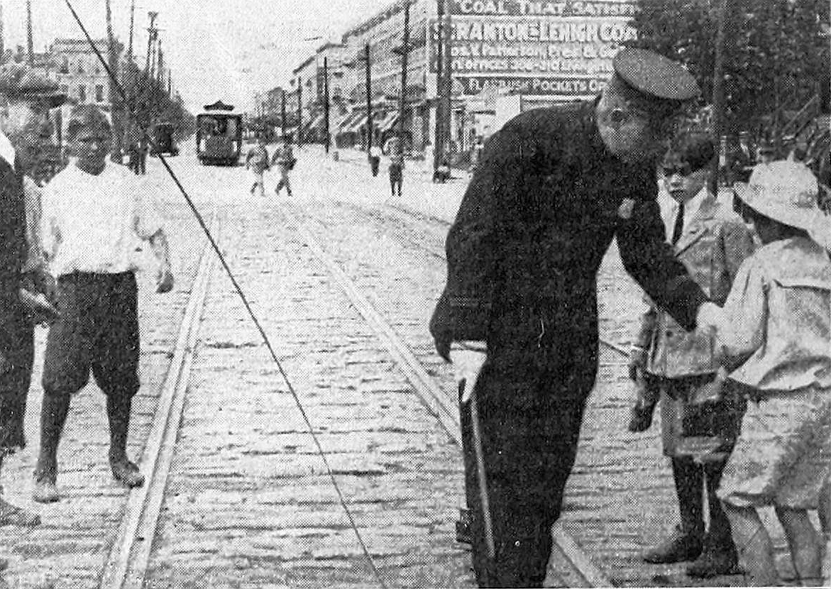 Policeman keeps children away from a fallen electrical wire in Brooklyn.